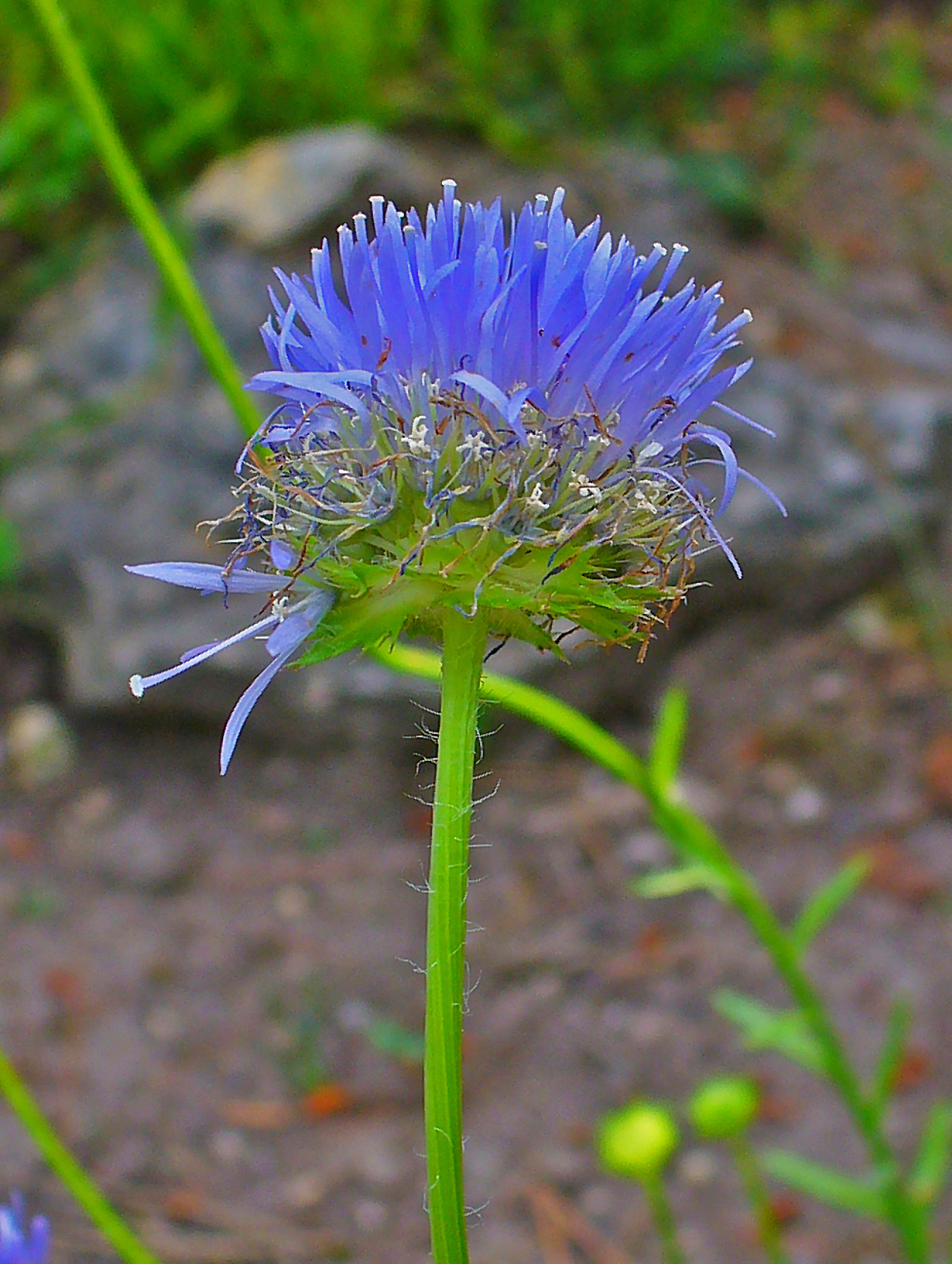 Jasione laevis, Campanulaceae, Sheep's Bit, inflorescence; Botanical Garden KIT, Karlsruhe, Germany.